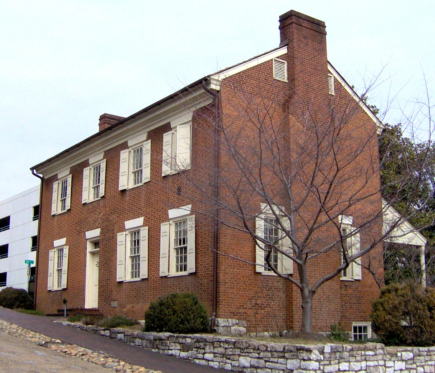 The Craighead-Jackson House in Knoxville, Tennessee, in the southeastern United States. The house was built by John Craighead in 1818. The house, adjacent to the Blount Mansion, occupies a lot that was once occupied by Charles McClung's clerk's office. The house was added to the National Register of Historic Places in 1973.